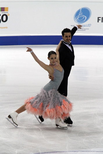 Federica Faiella and Massimo Scali at the the 2010 World Championships. Compulsory dances - Golden Waltz